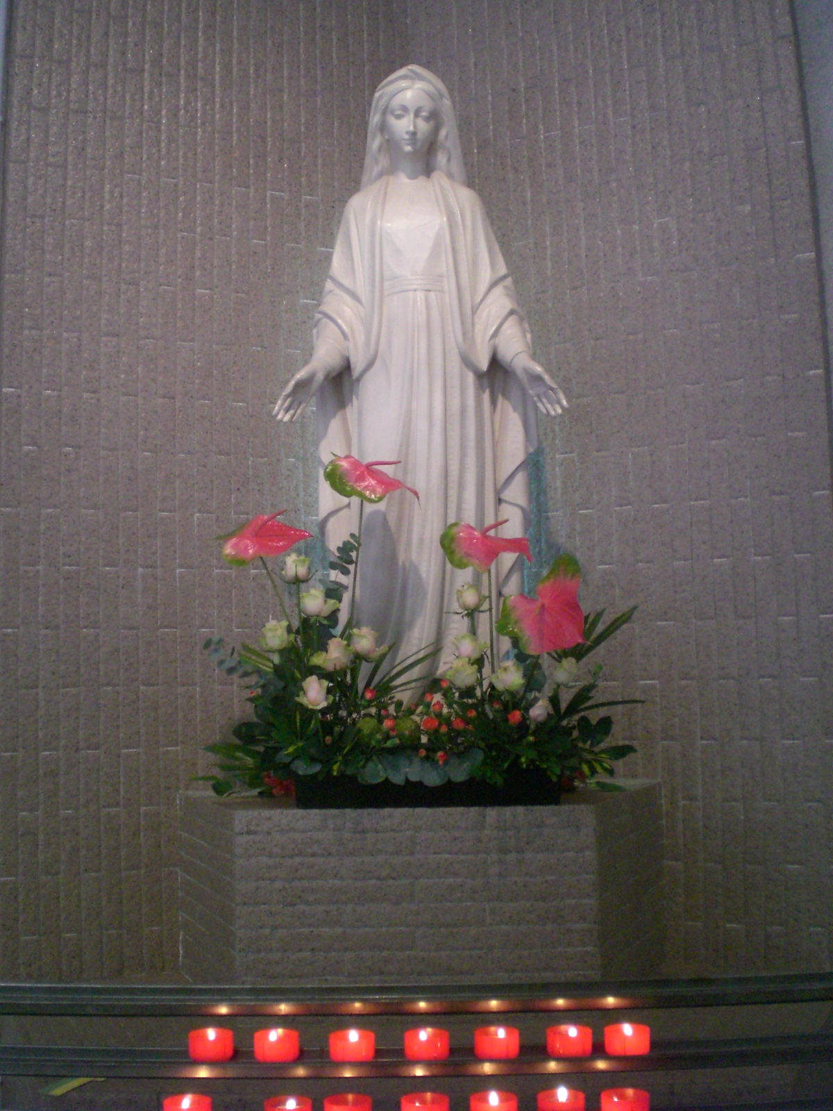 荃灣 聖母領報堂